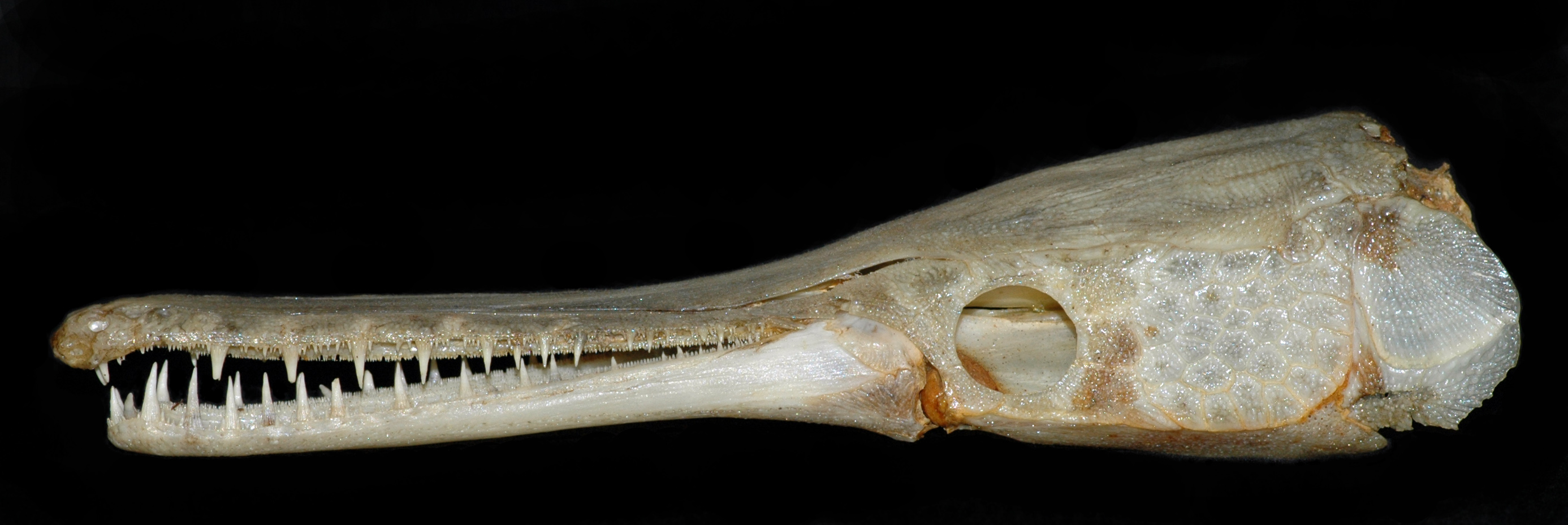 Skull of Florida gar (Lepisosteus platyrhincus)